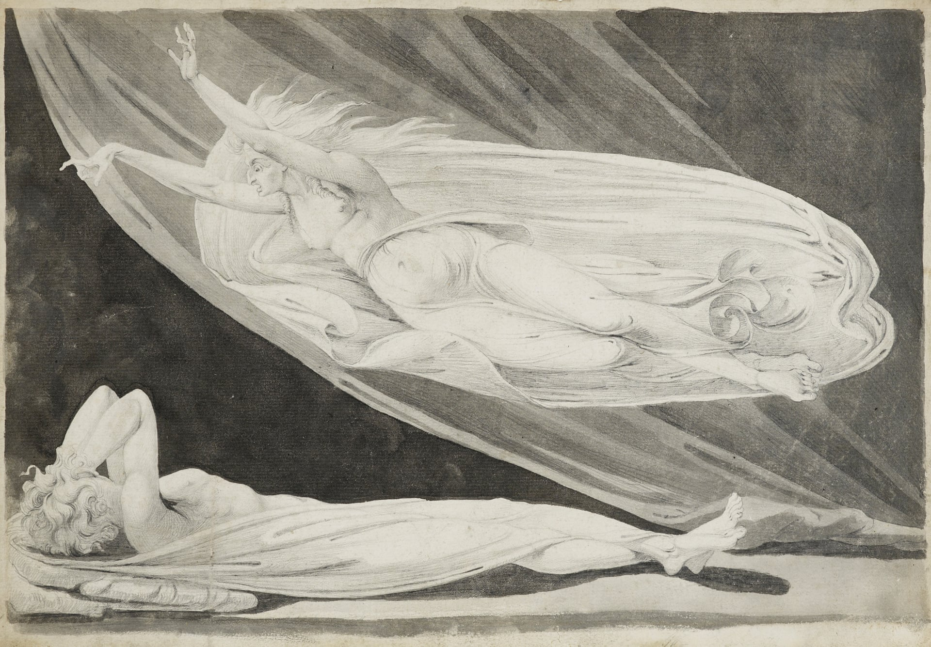 Julia Appearing to Pompey in a Dream